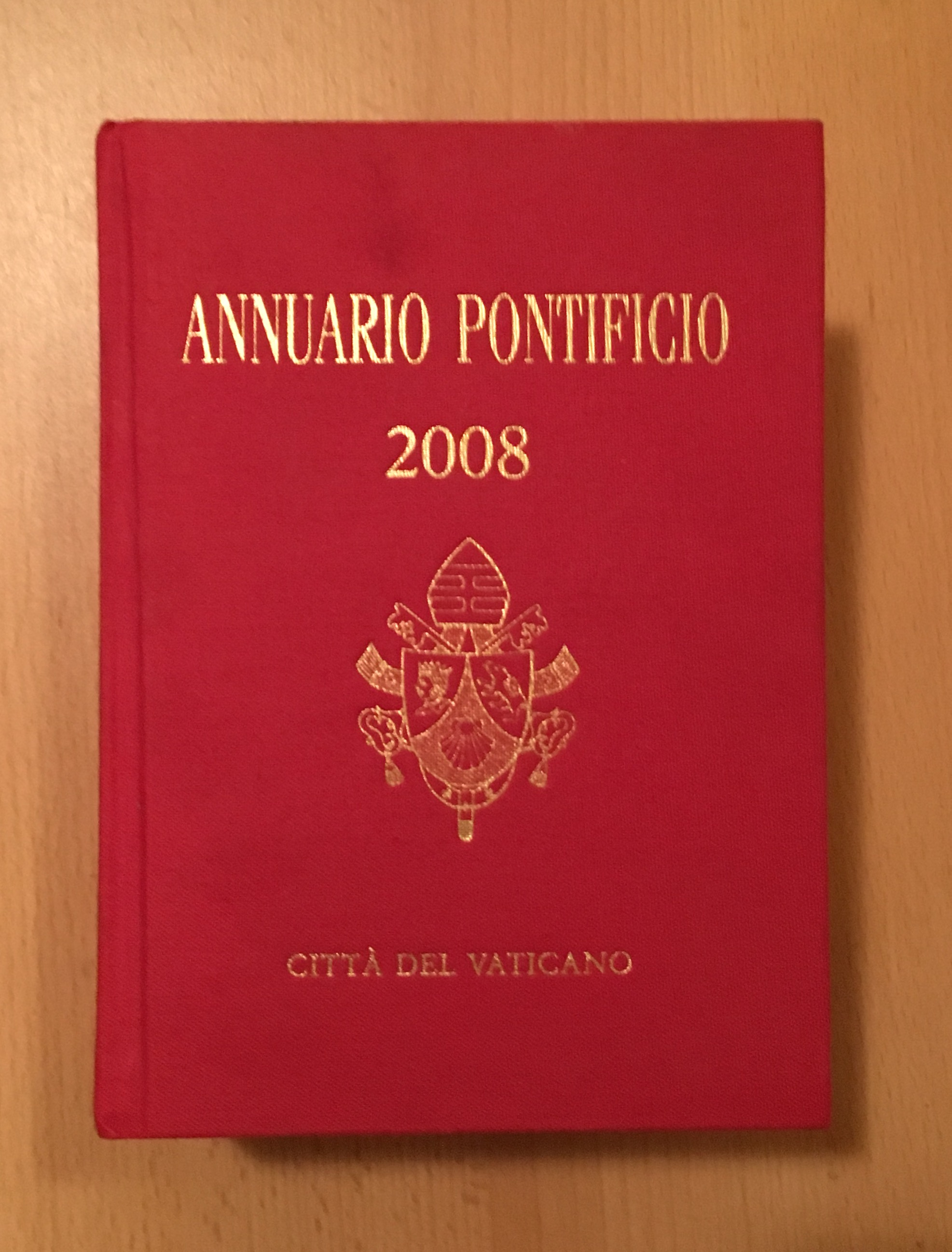 Annuario Pontificio from y. 2008 with CoA of H.H. Pope Benedict XVI.